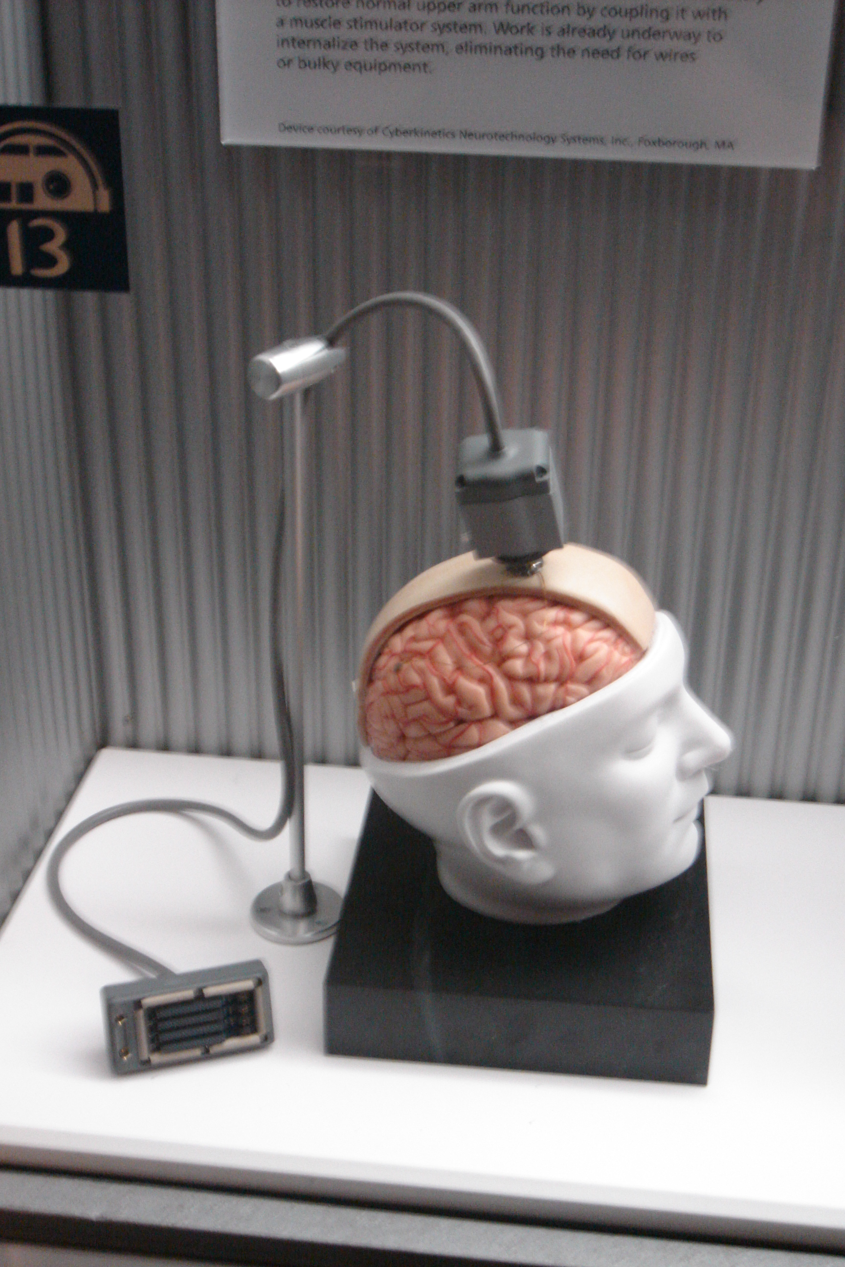 This is a photo of a dummy BrainGate interface which was at the Star Wars exhibition at the Boston Science Museum in October 2005. I took it myself.